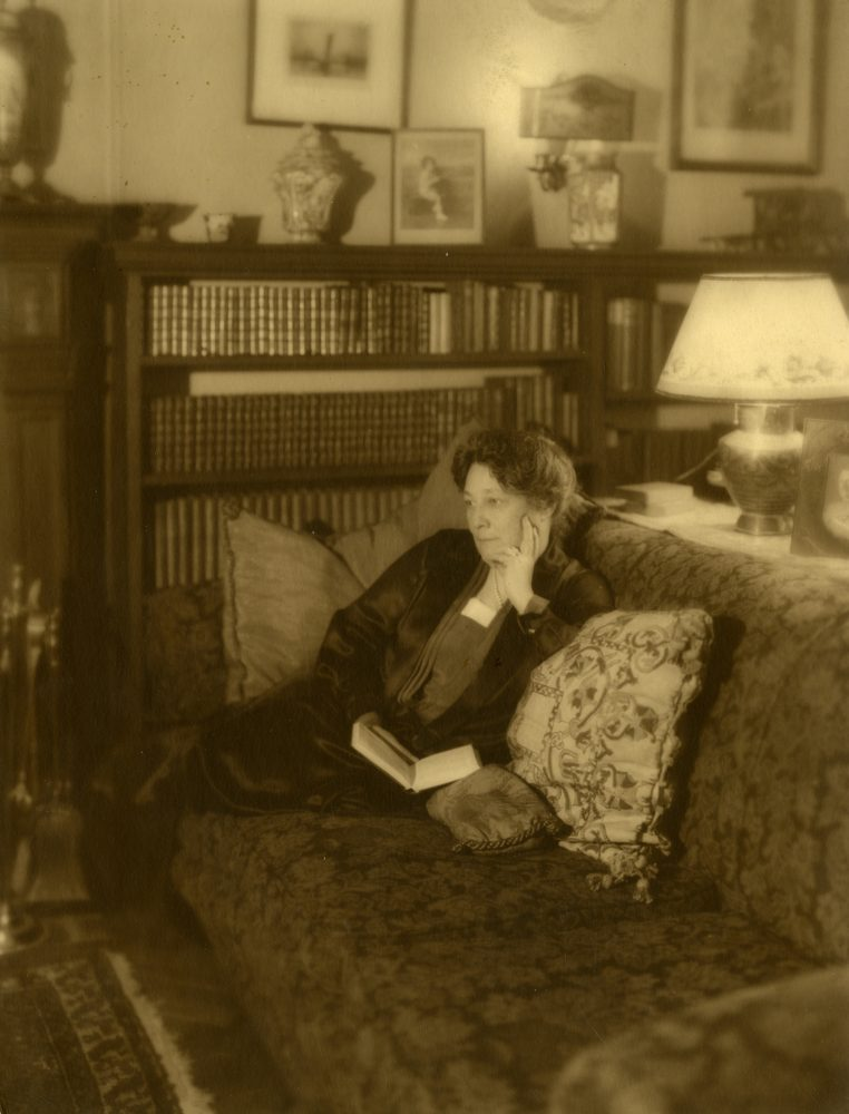 Image of Alice Foote McDougall circa 1915-1925.